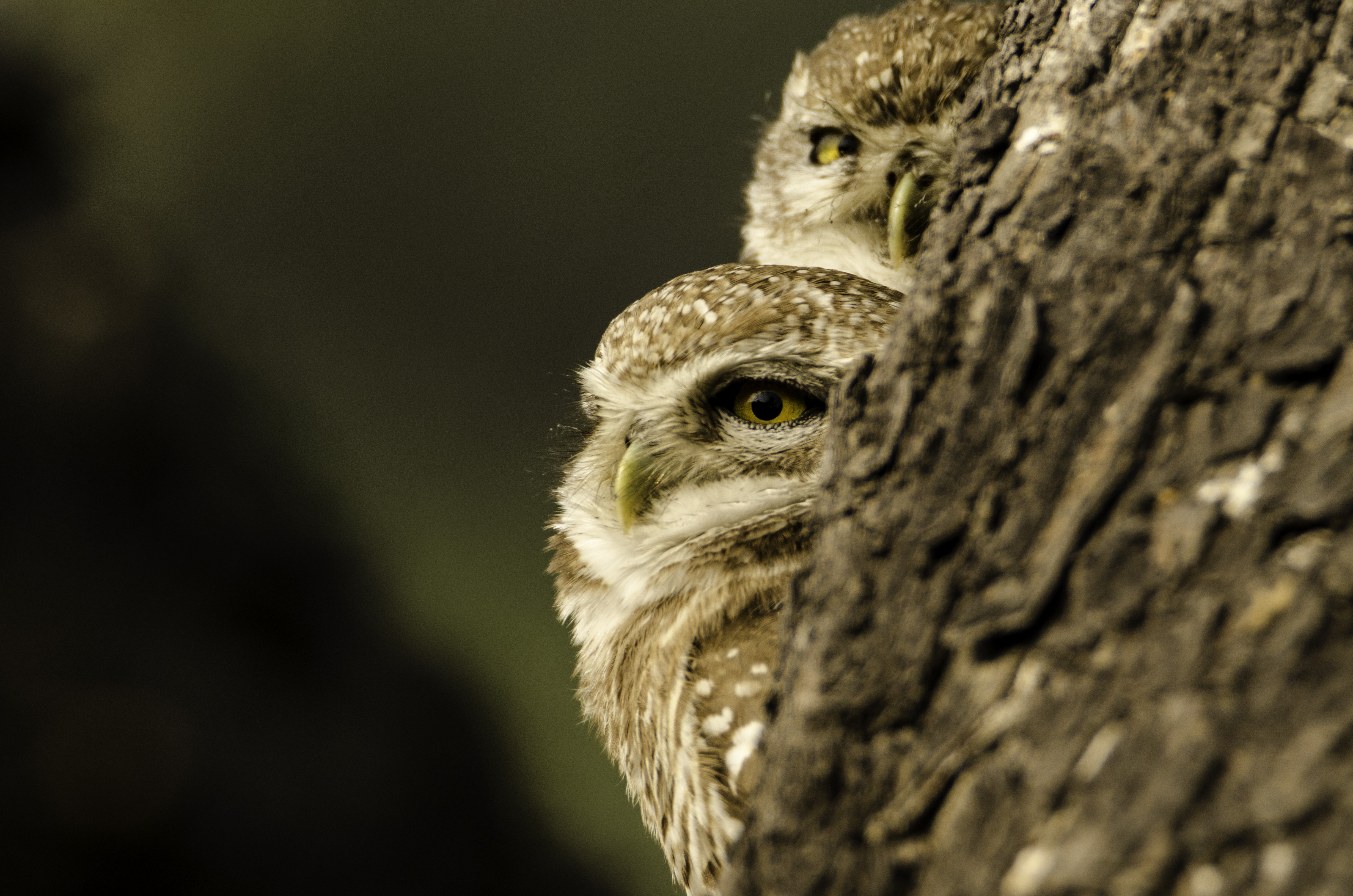 While walking through the Keoladeo National Park, Rajasthan, India, I saw Spotted Owls sneaking from the tree.